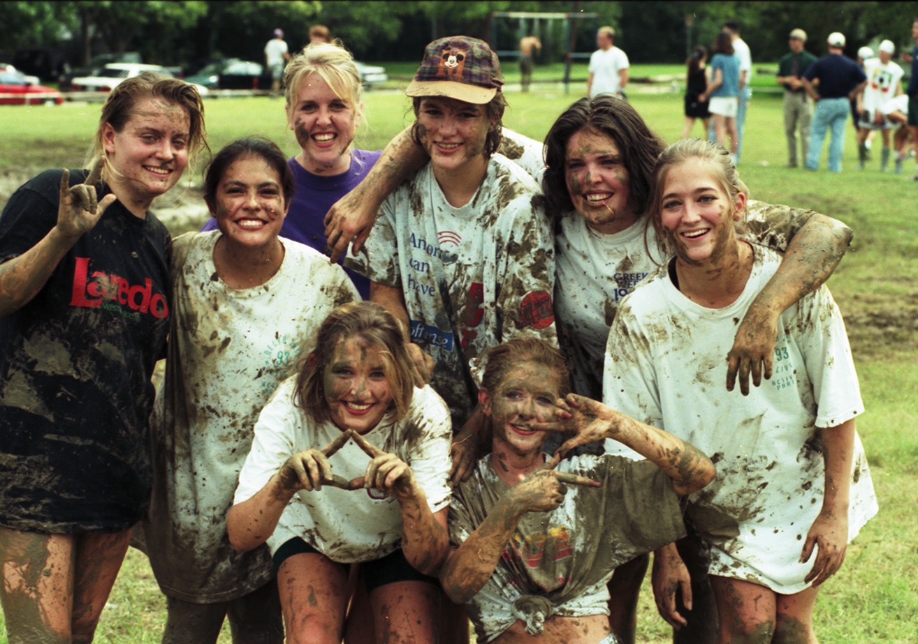 University of Texas at Arlington tradition of oozeball; eight students covered in mud pose for camera.